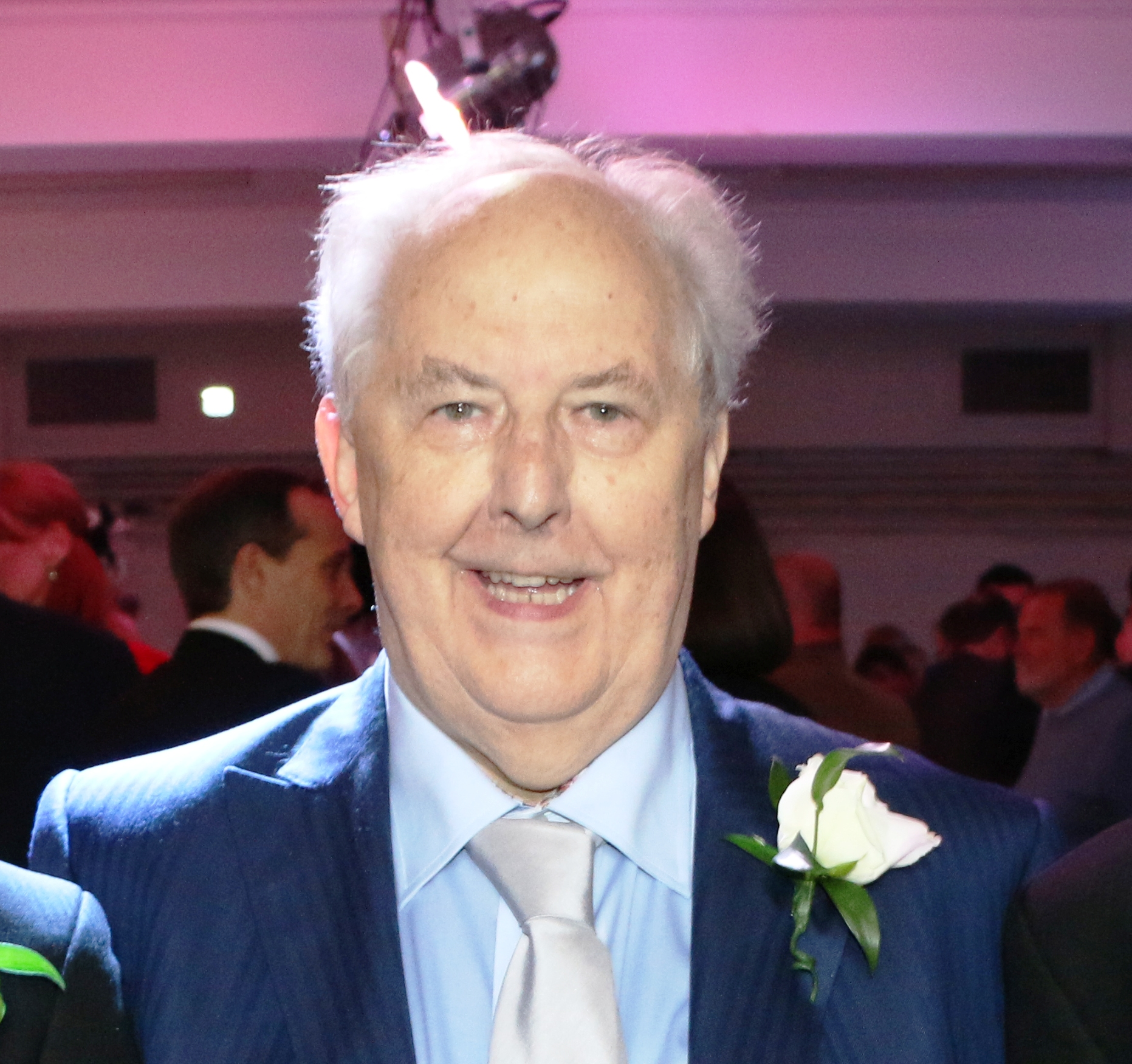 A happy occasion in London